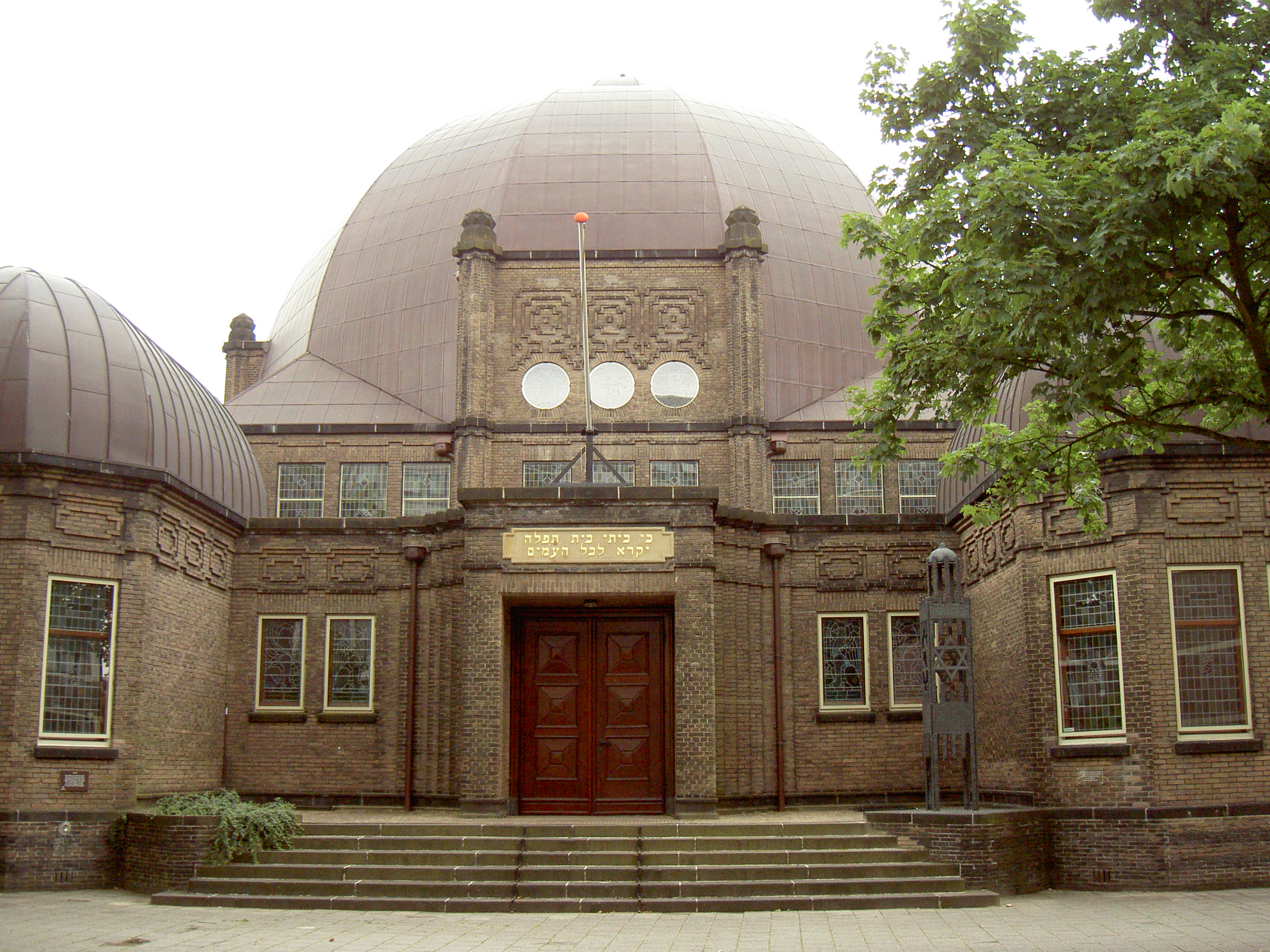 The entrance of the synagogue, designed by De Bazel. The text above the entrance comes from the Book of Isaiah 56:7 (ספר ישעיהו נו:ז) and says: כי ביתי בית תפילה יקרא לכל העמים. Which the KJV translates as: "for mine house shall be called an house of prayer for all people."